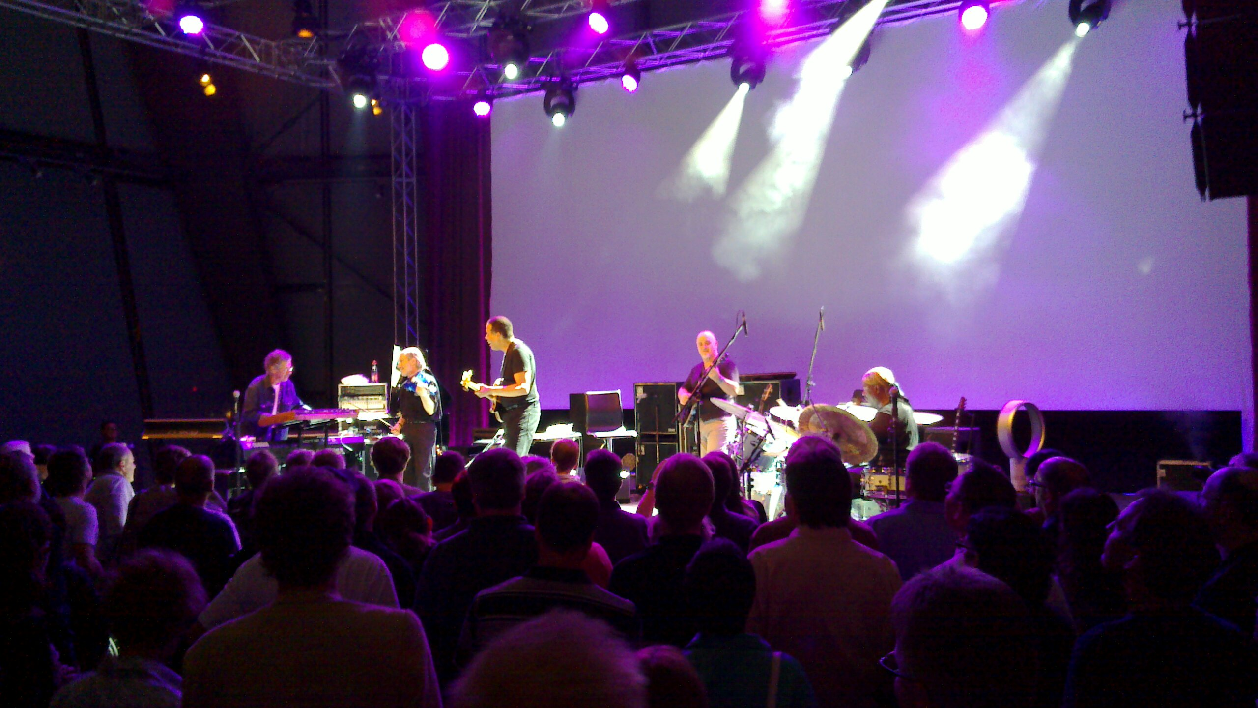 Return to Forever IV at Neckarsulm, Germany, 20110703 014